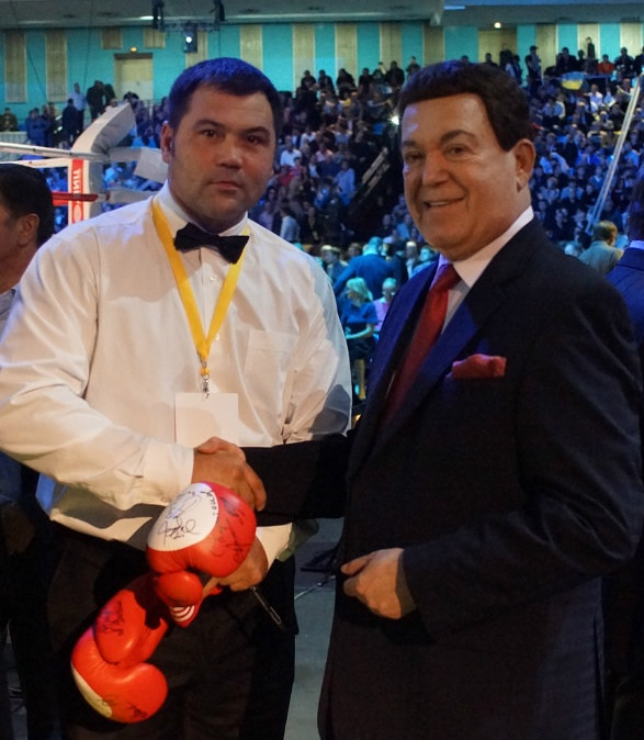 Kurnyavka with Kobzon